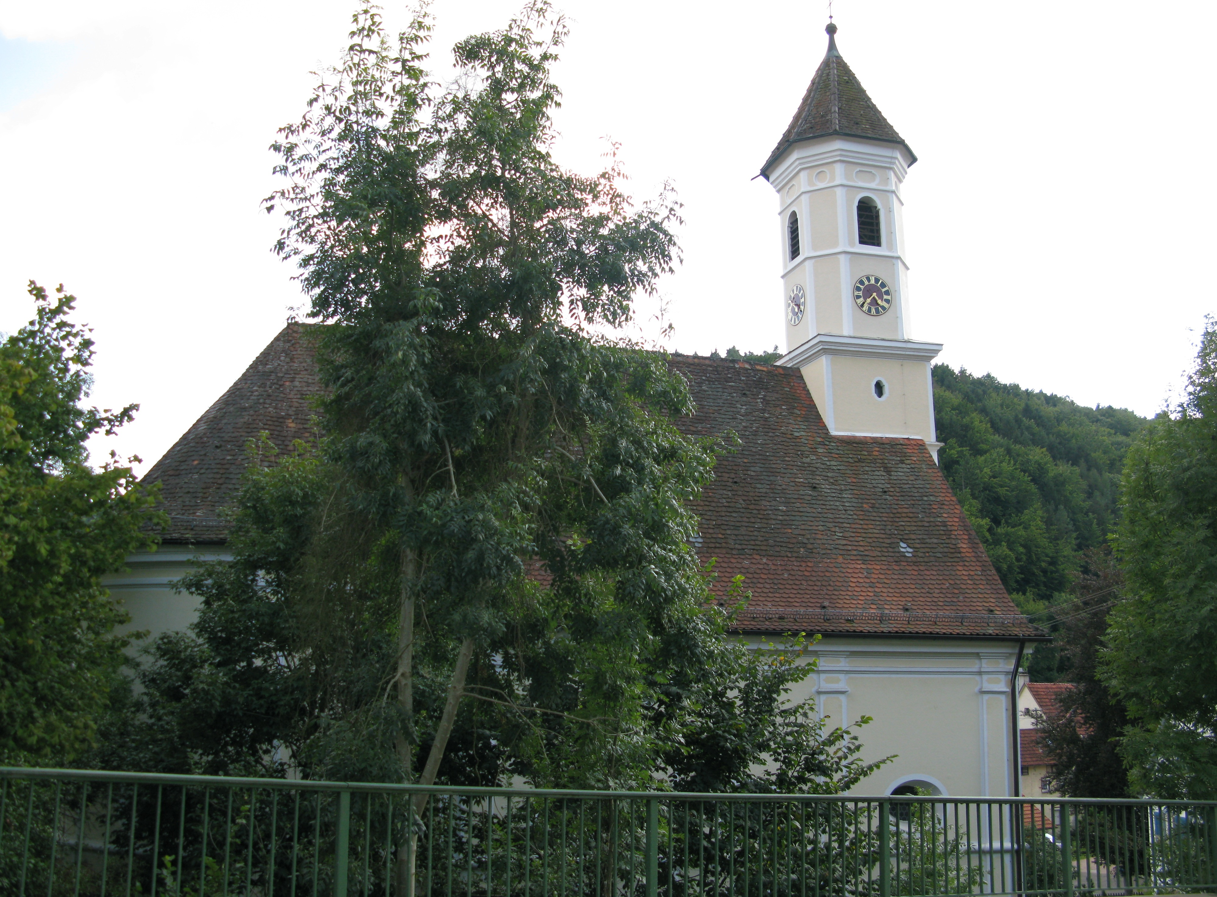 The catholic church of Mühringen (district of Horb am Neckar)